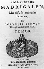 Cornelis Schuyt: Hollandsche madrigalen met vijf, ses, ende acht stemmen, 1603. Reproduction of the frontispice of a printed book from 1603 in the public domain because of its age